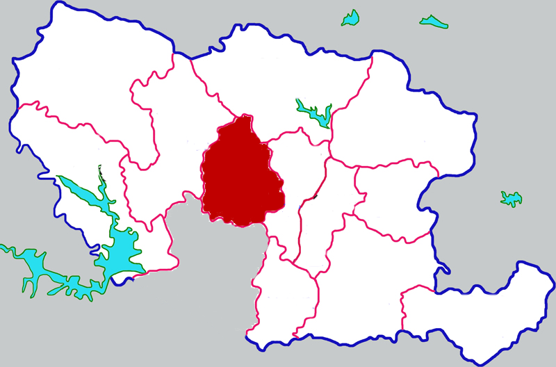 Location of Zhenping county in Nanyang city, China